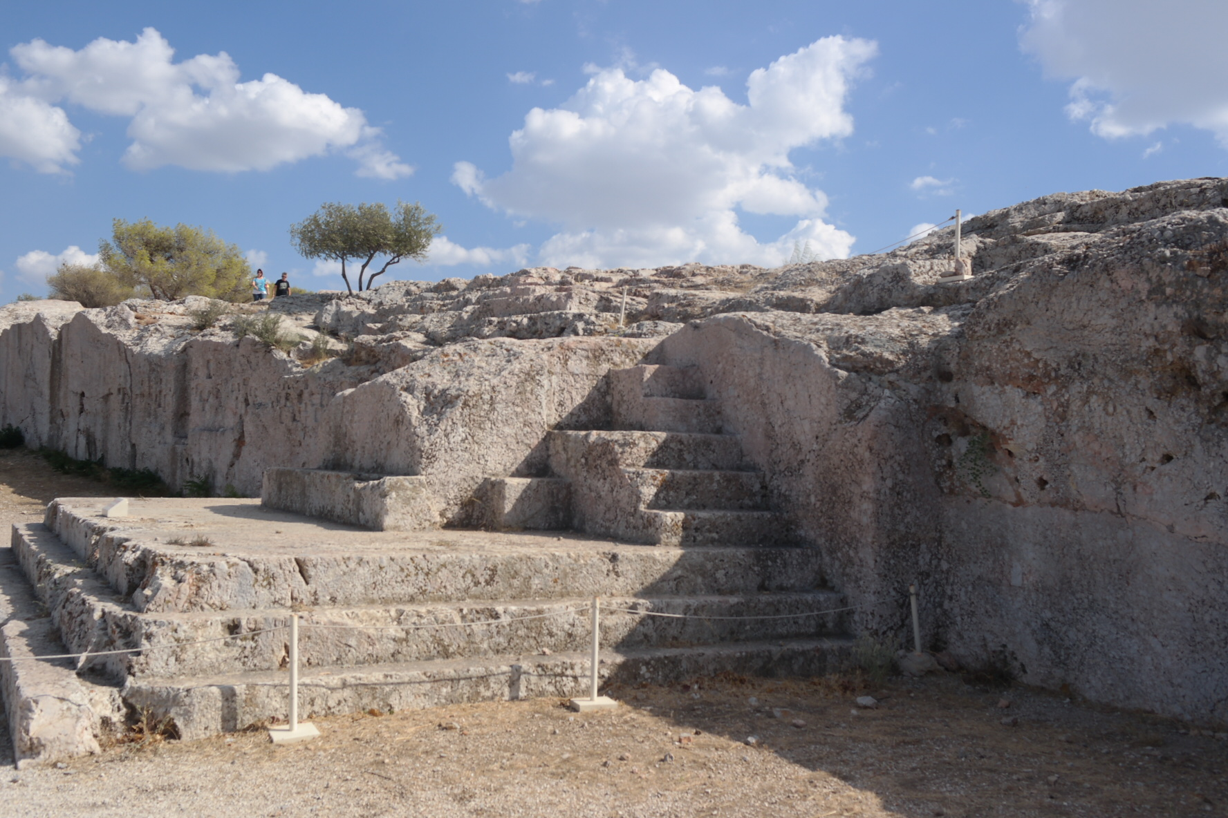 An amazing place,Pnyx, is a hill in central Athens, the capital of Greece. Beginning as early as 507 BC, the Athenians gathered on the Pnyx to host their popular assemblies, thus making the hill one of the earliest and most important sites in the creation of democracy